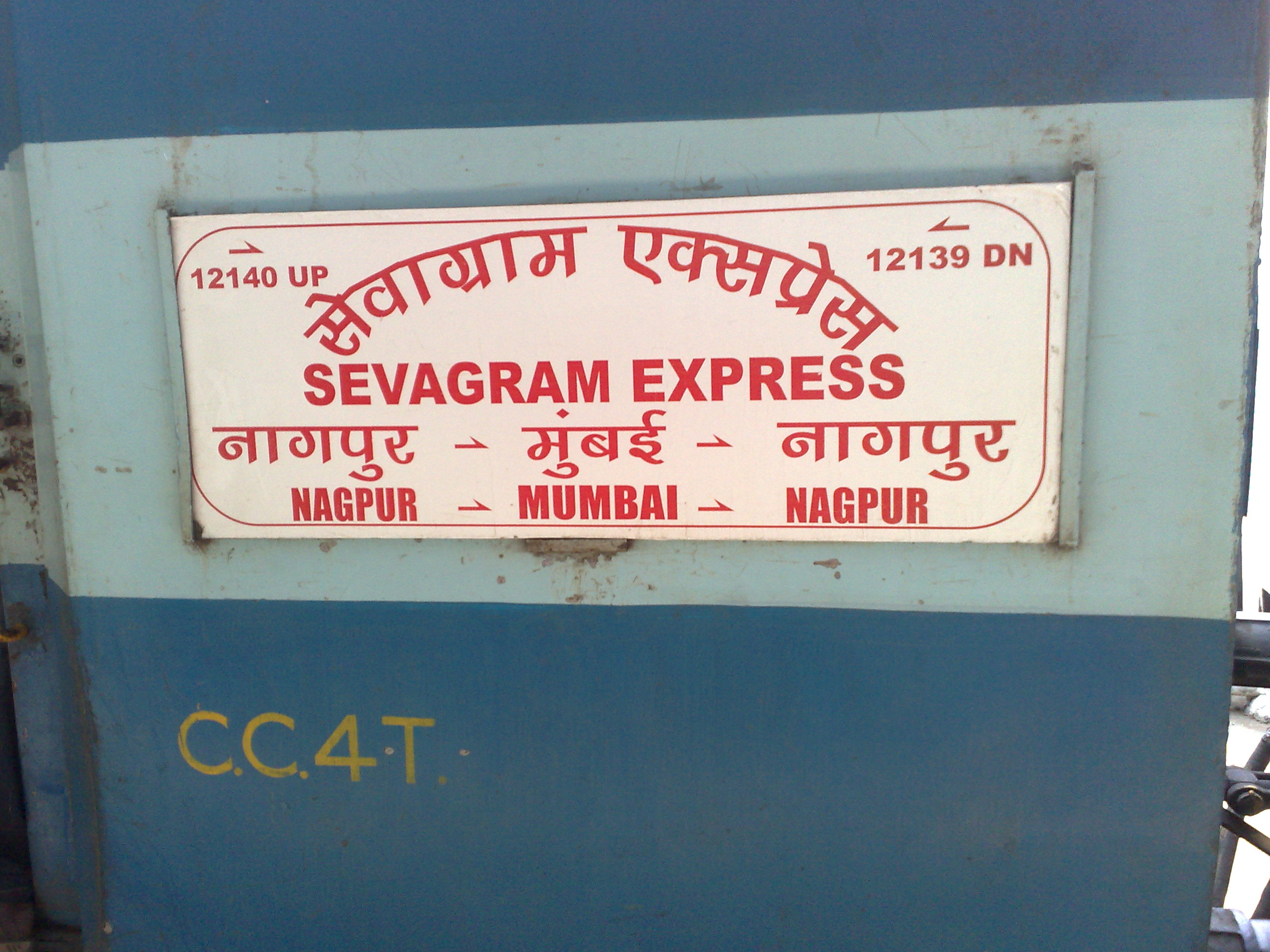 12139 Sewagram Express